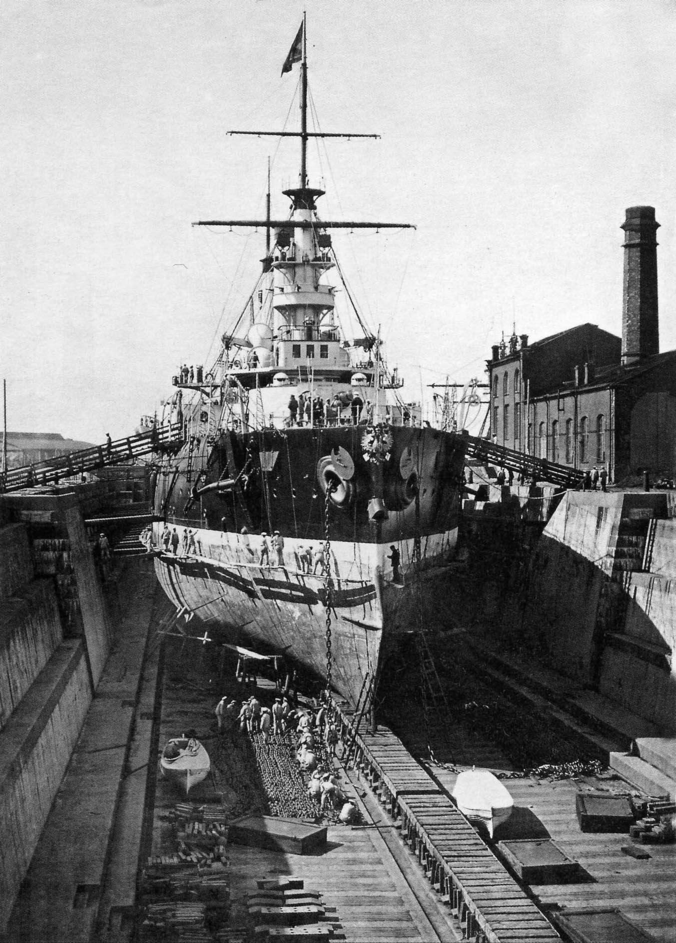 Battleship Poltava.